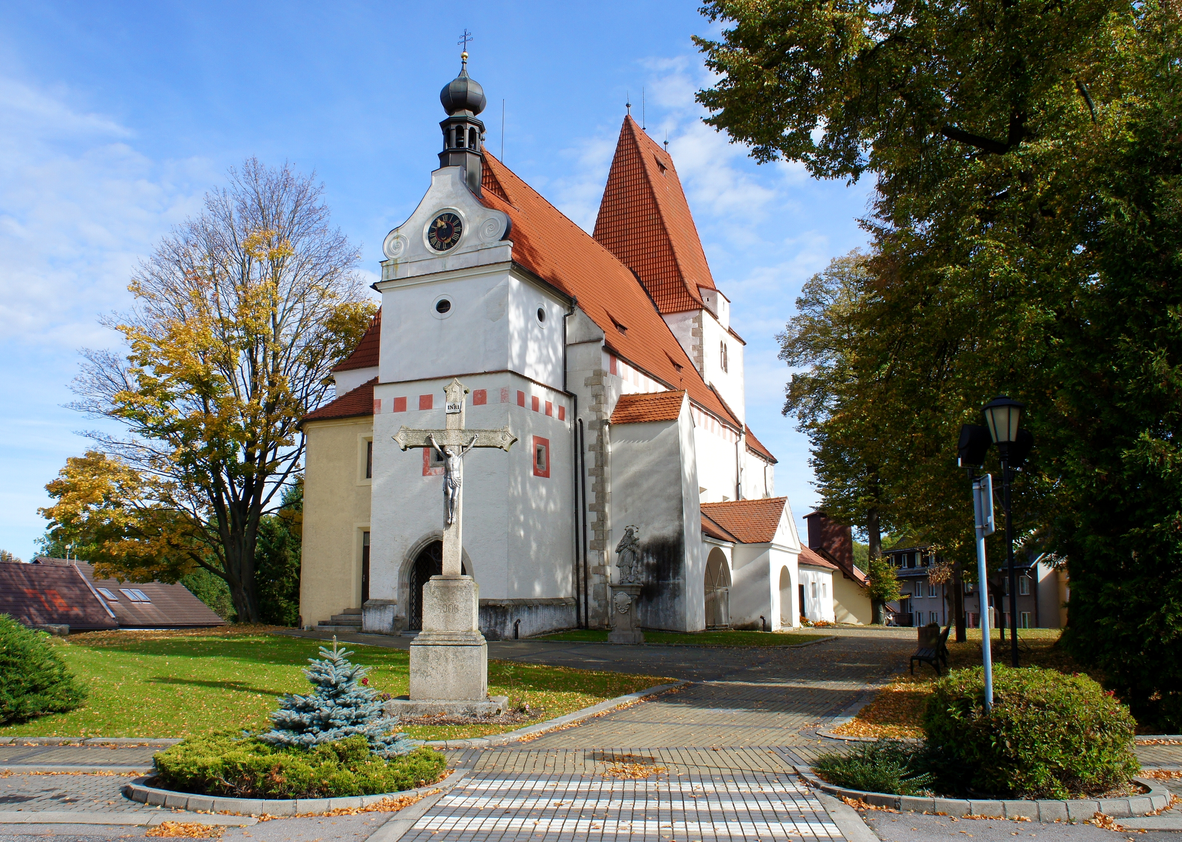 Saint Nicholas Church in Horní Stropnice (South Bohemian Region, Czechia).